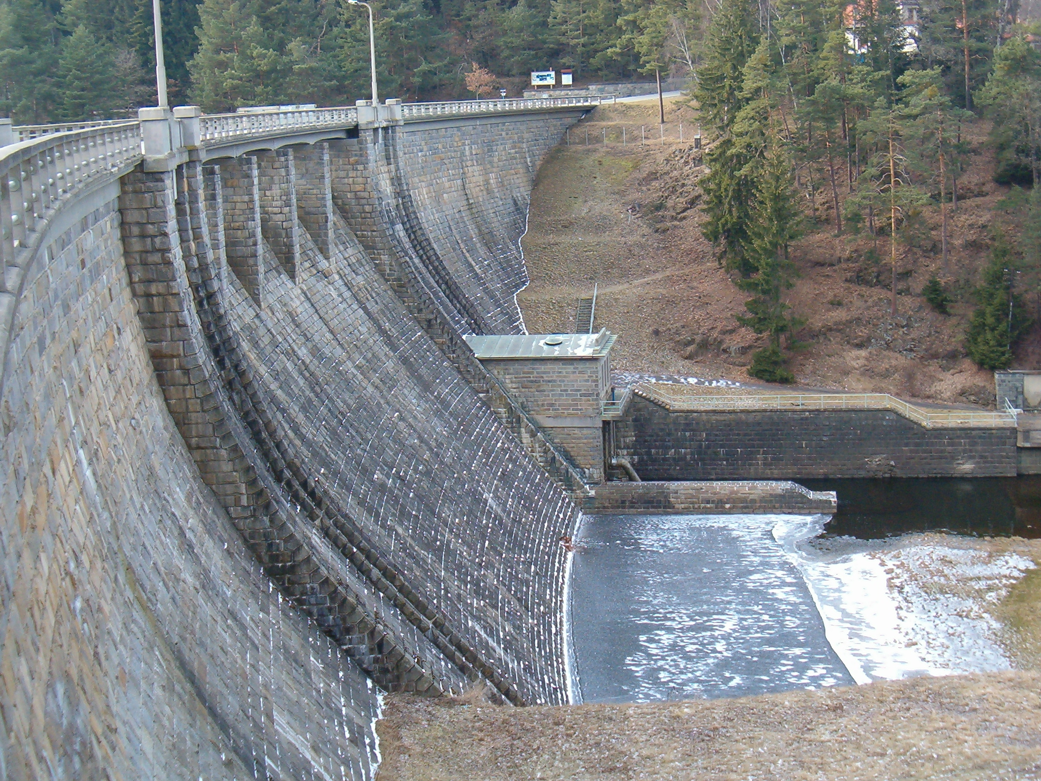 Husinec dam, Czech Republic